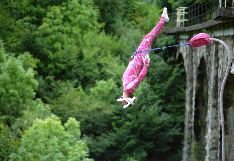 Double backflip during training by Thierry Devaux.